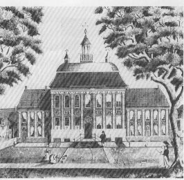 Mennonite church in Norden (Germany)